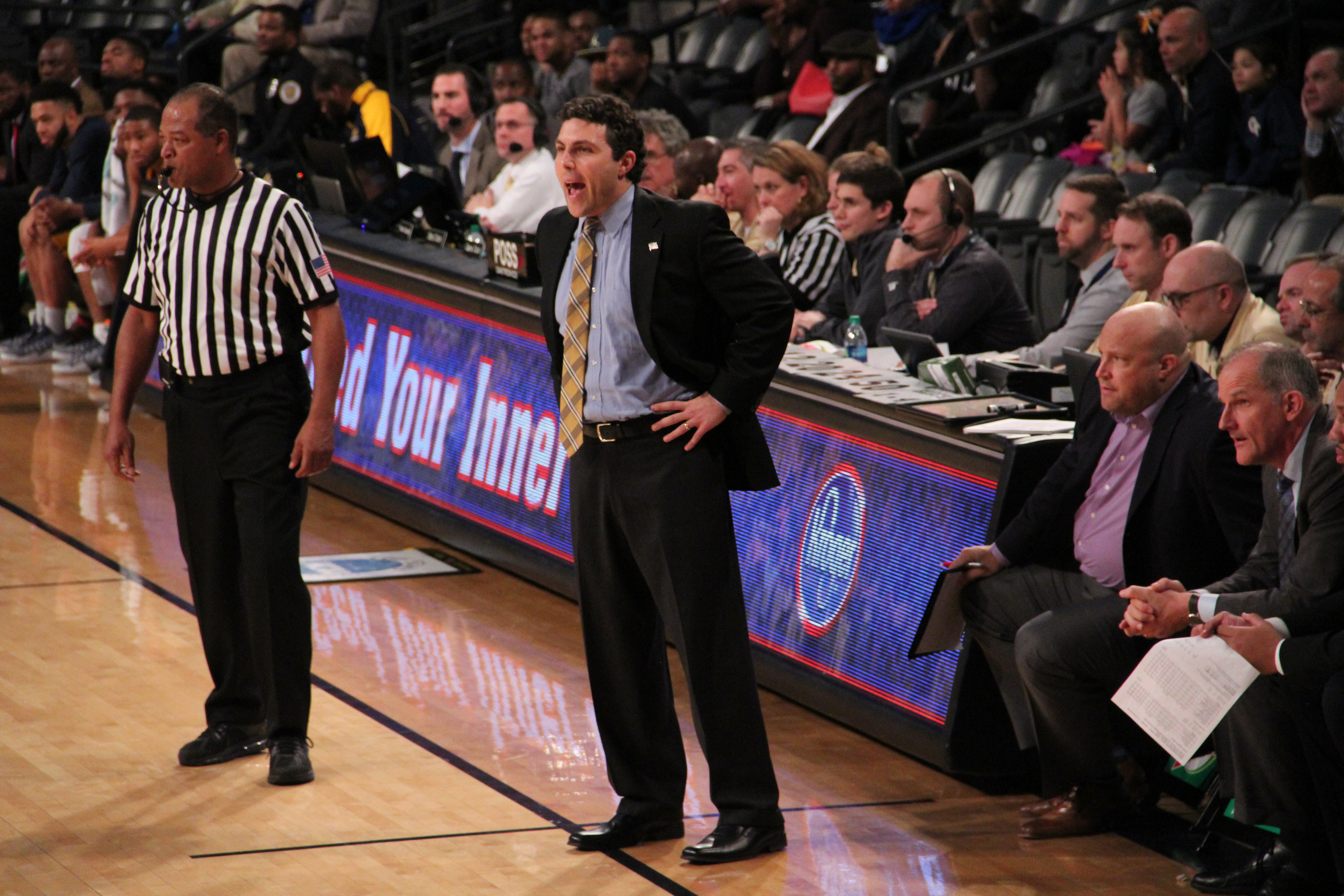 Georgia Tech men's basketball coach Josh Pastner